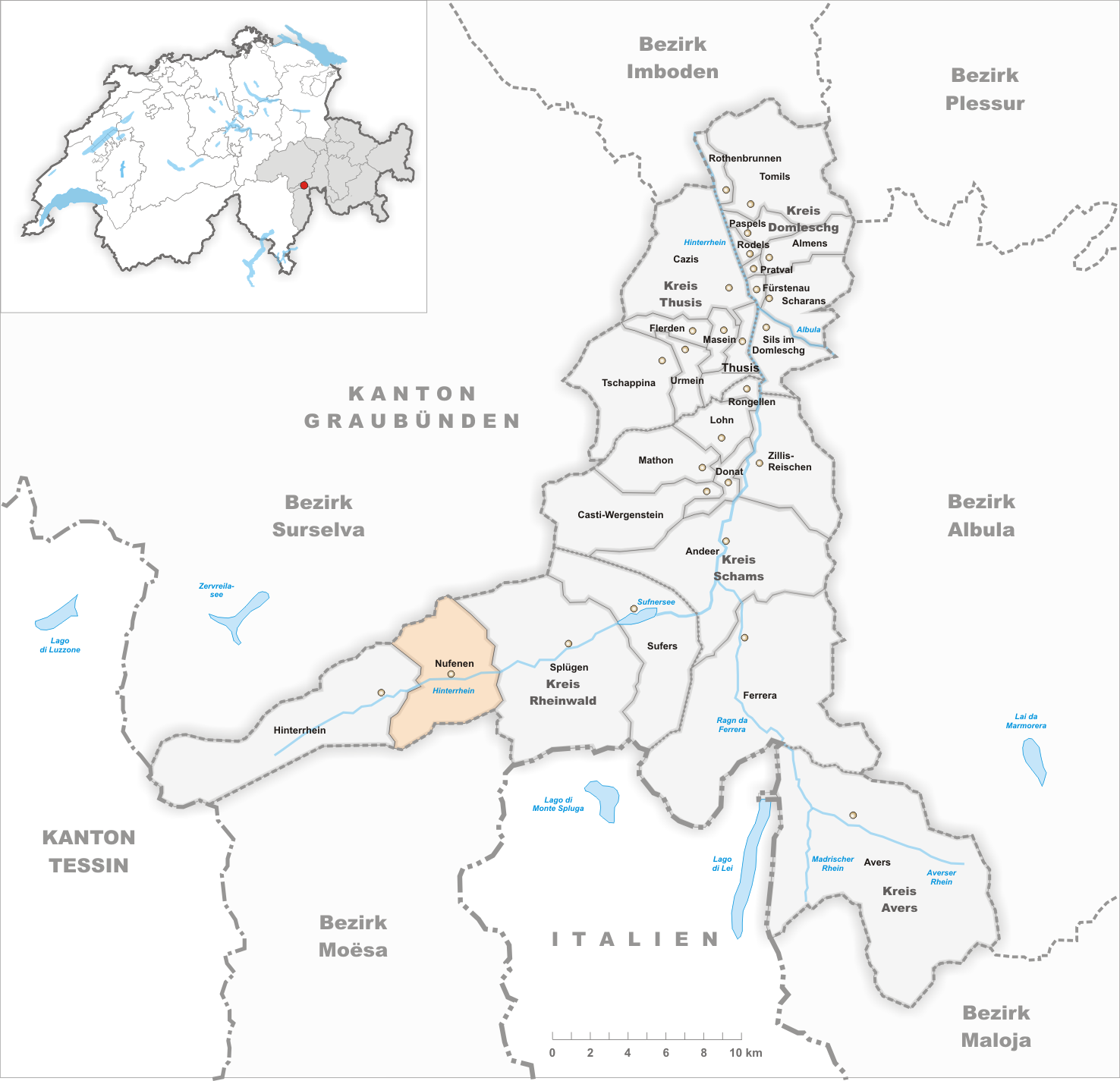 Municipality Nufenen